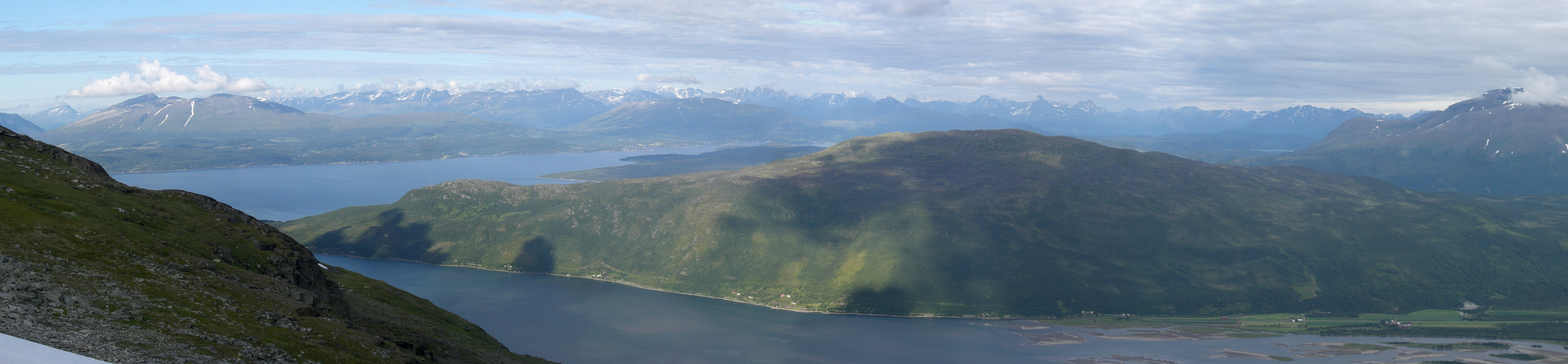 Panorama of Målselvfjorden. Troms, Norway